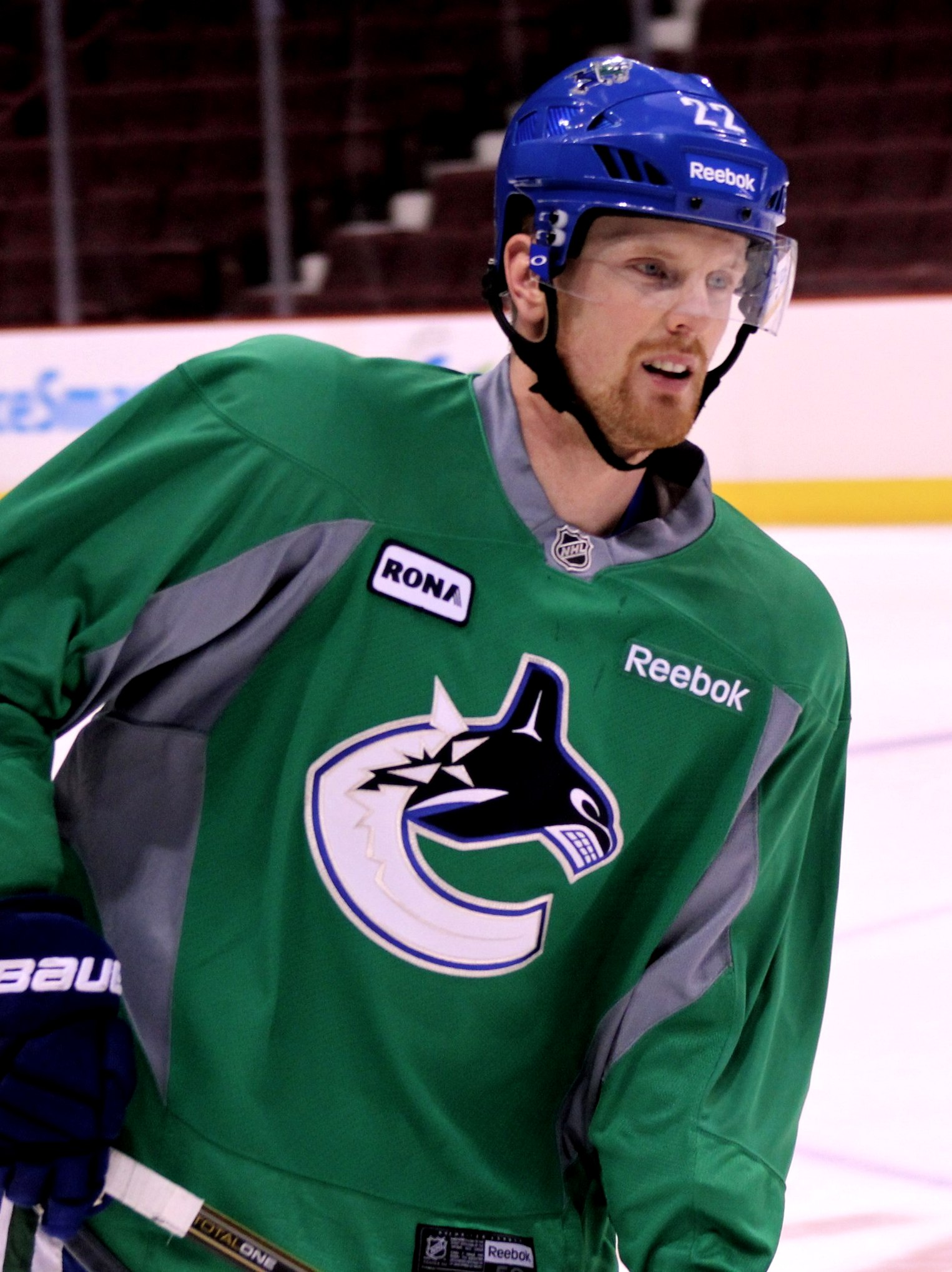 Vancouver Canucks forward Daniel Sedin during a practice on March 9, 2012.